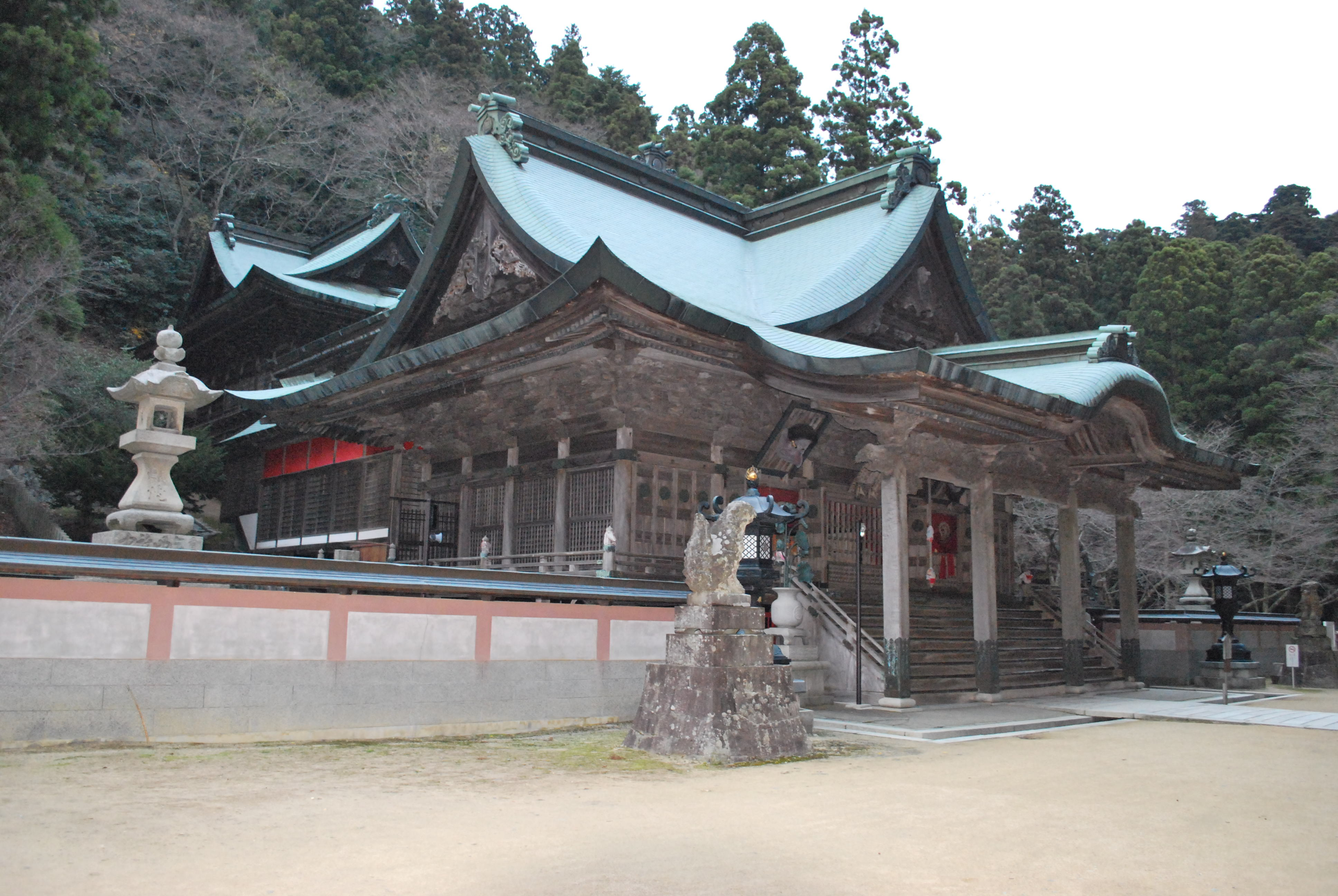 Hondō (Main hall) of Hashikura-ji temple(Japan's national important cultural property), Tokushima Pref., Japan